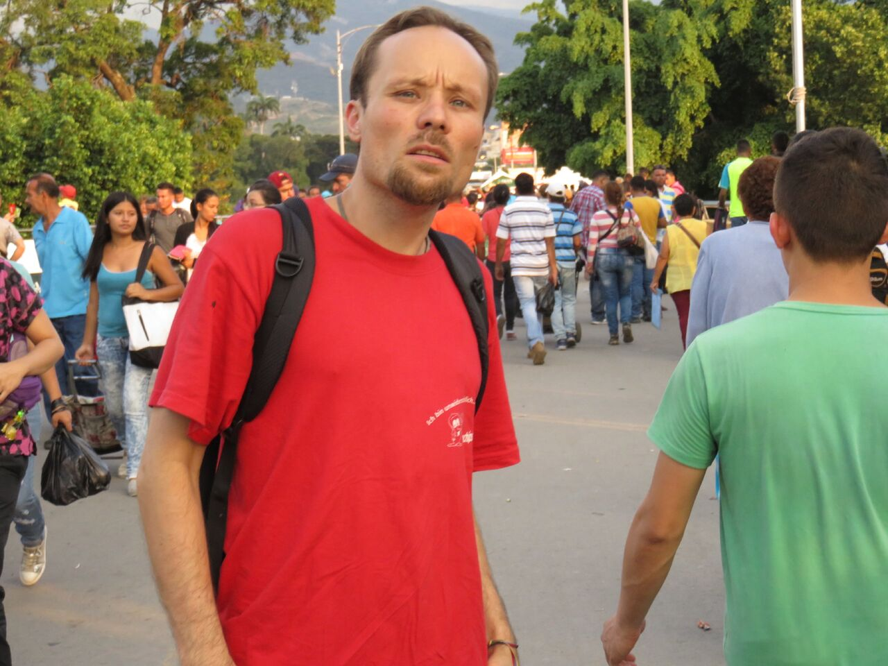 German Journalist Billy Six